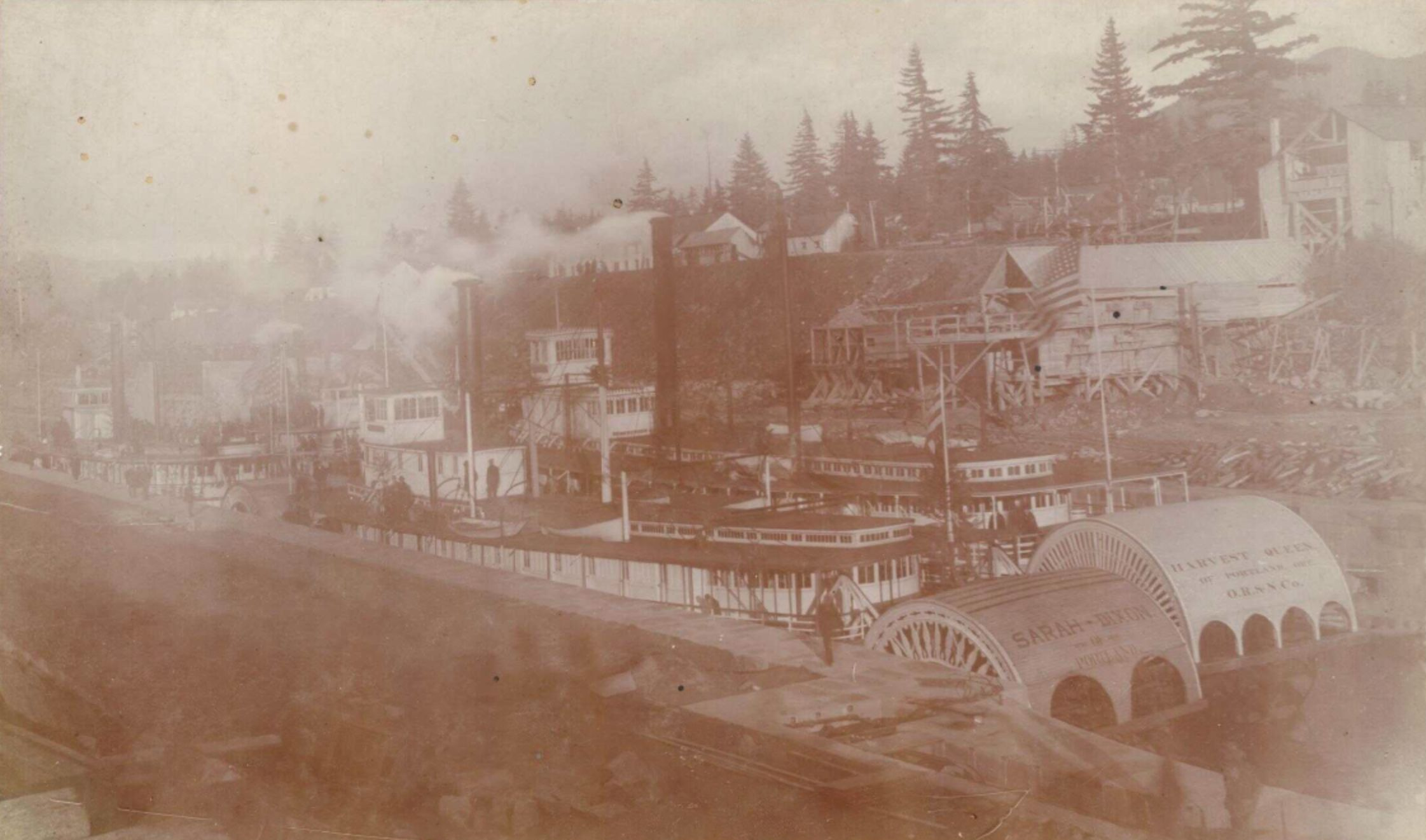 Stern-wheel steamboats Sarah Dixon (on left) and Harvest Queen, in lock at the newly opened Cascade Locks and Dam, November 5, 1896.